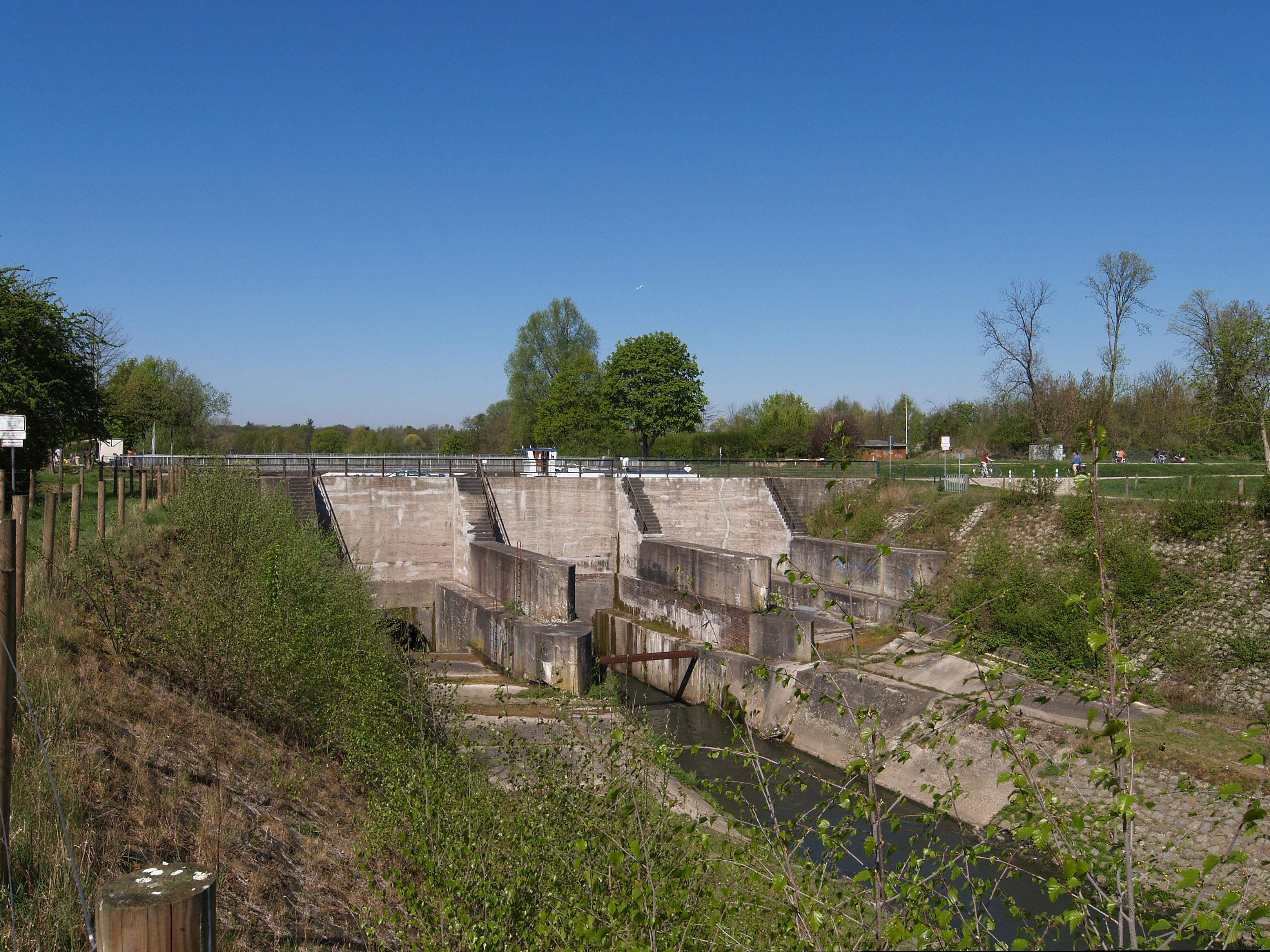 Emscher river passing the Rhine-Herne-Canal above by culvet